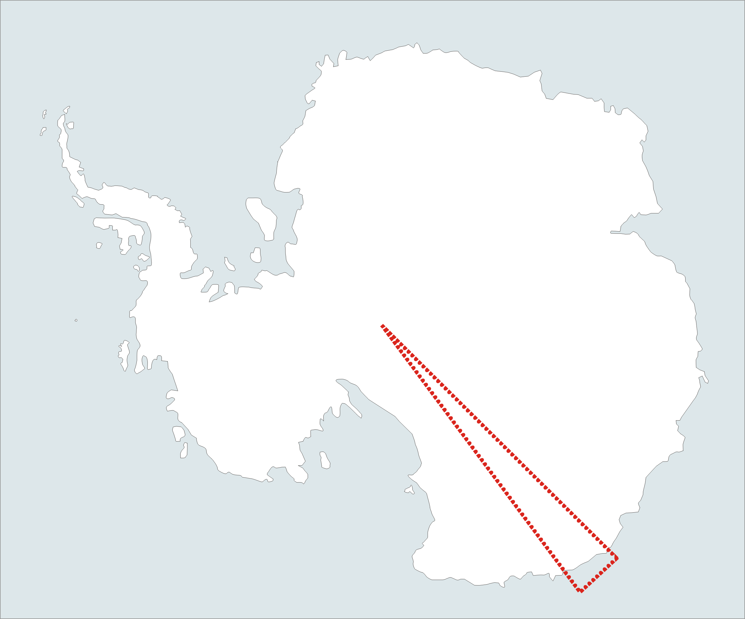 Position of Terre Adélie, French Southern and Antarctic Territories drawn by varp